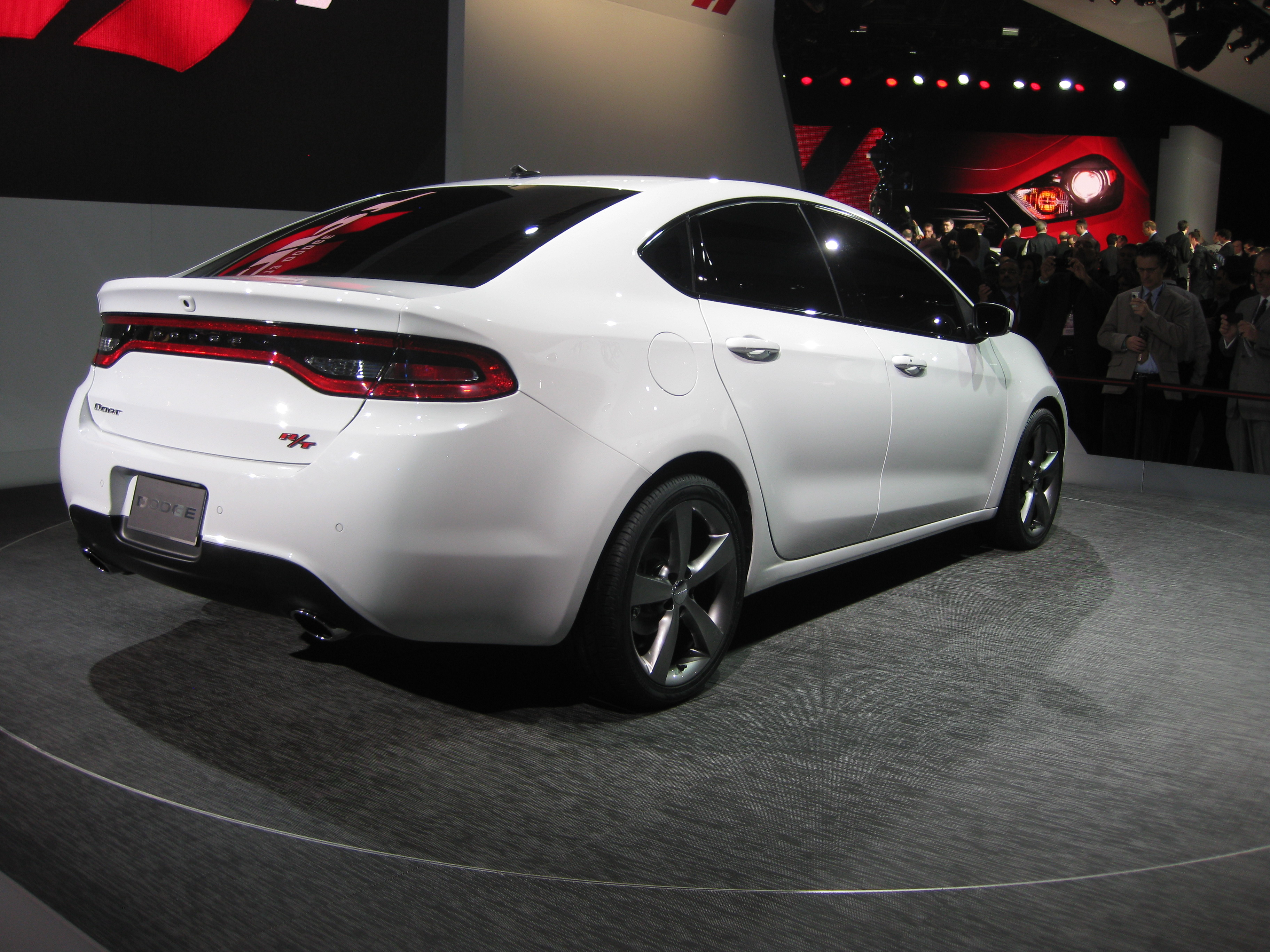 For more info and images please check